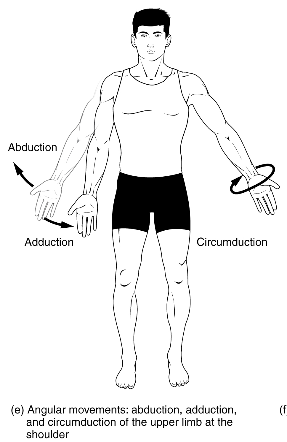 Body Movements I of II